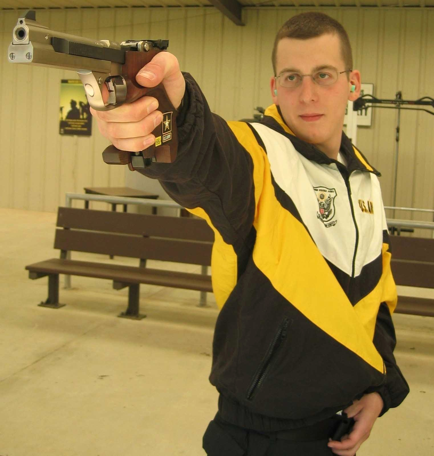 Pfc. Brad A. Balsley took first place at the USA Shooting Three-Times Rapid Fire Pistol Match Feb. 15 to 17. Photo by USAMU